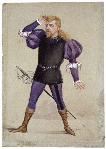 Caricature of Polish opera singer Jean de Reszke. Watercolour, 14 1/4 in. x 10 1/2 in. (362 mm x 267 mm)